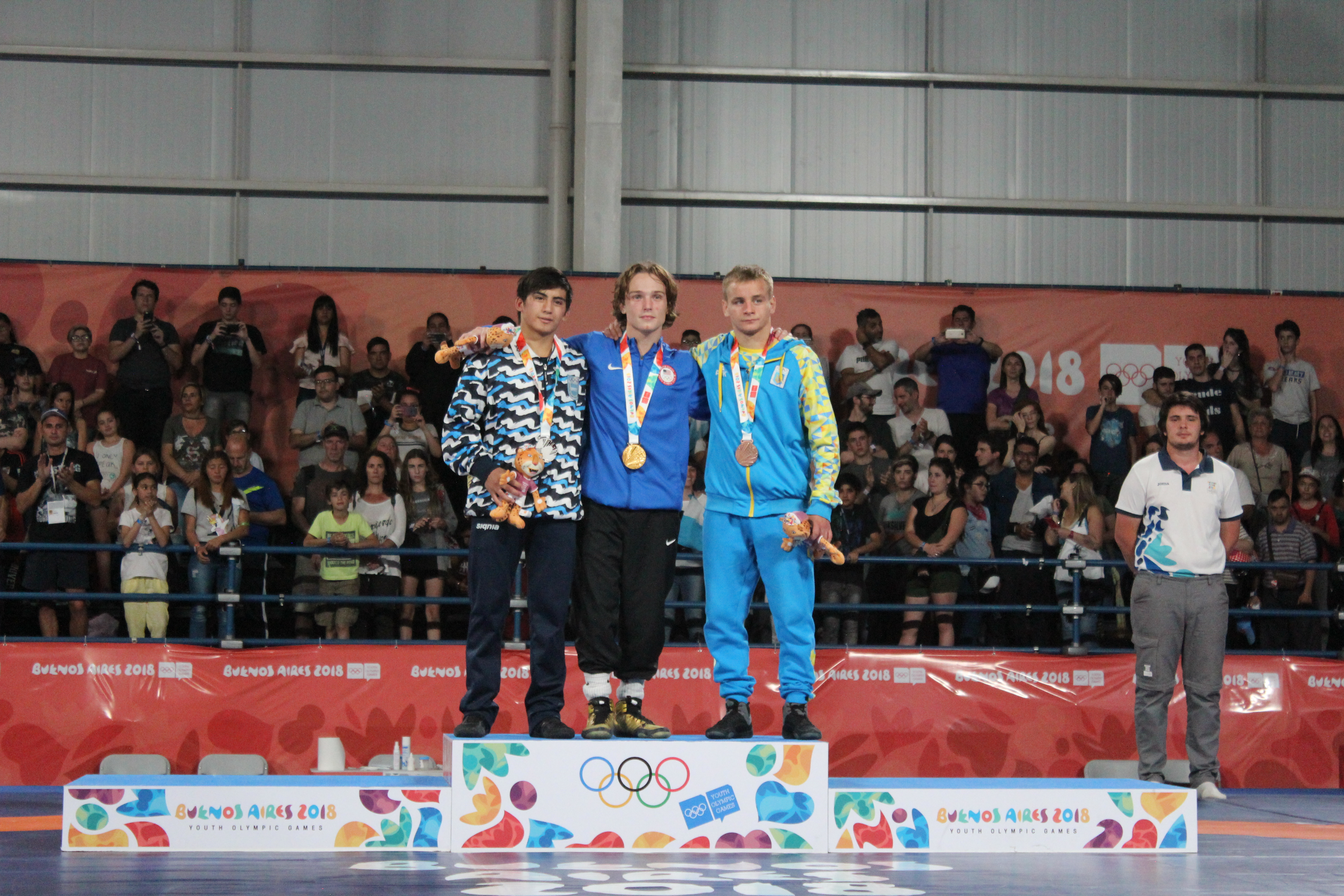 Robert Howard (USA) Hernán David Almendra (ARG) Vladyslav Ostapenko (UKR)